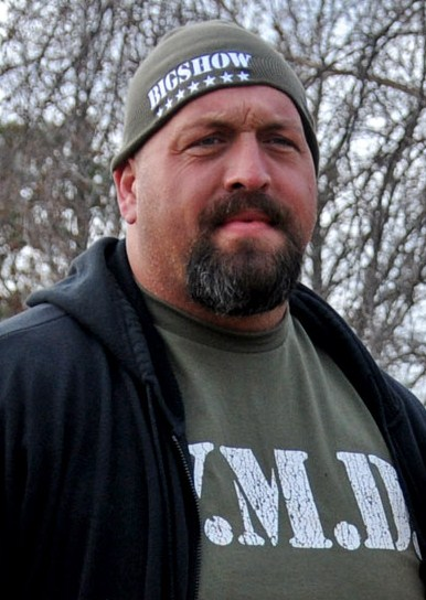 Big Show visits soldiers at Fort Bragg on December 9, 2011.